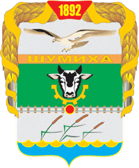 Shumikha (Kurgan oblast), coat of arms